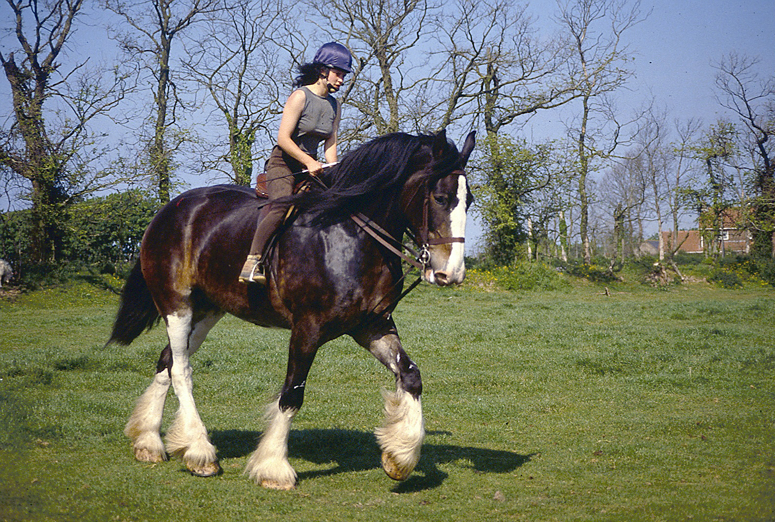 April 1990 Jersey Shire Horse Farm Kate Riding Ben.